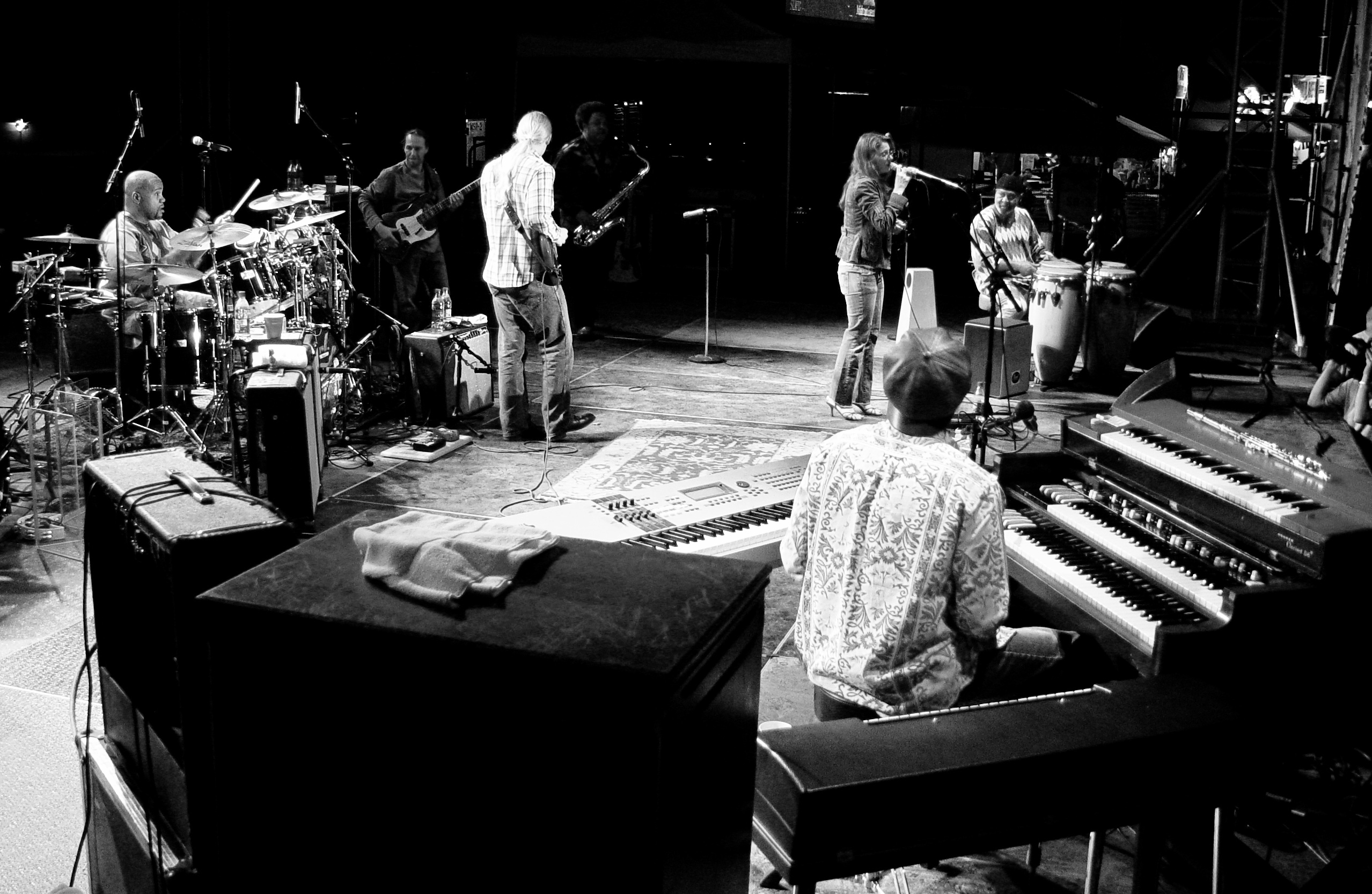 Derek Trucks Band with Susan Tedeschi